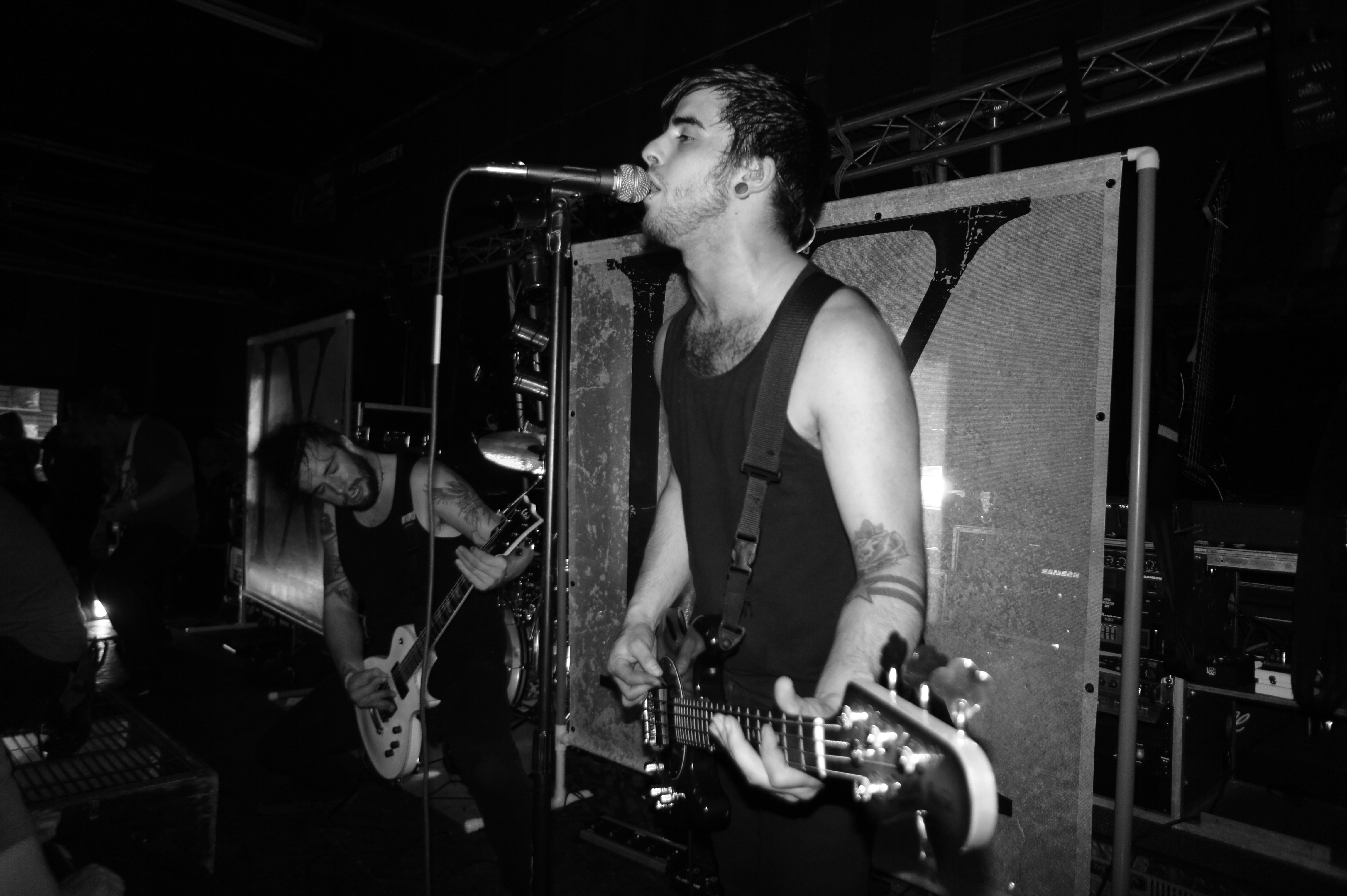 American band Ice Nine Kills live in concert